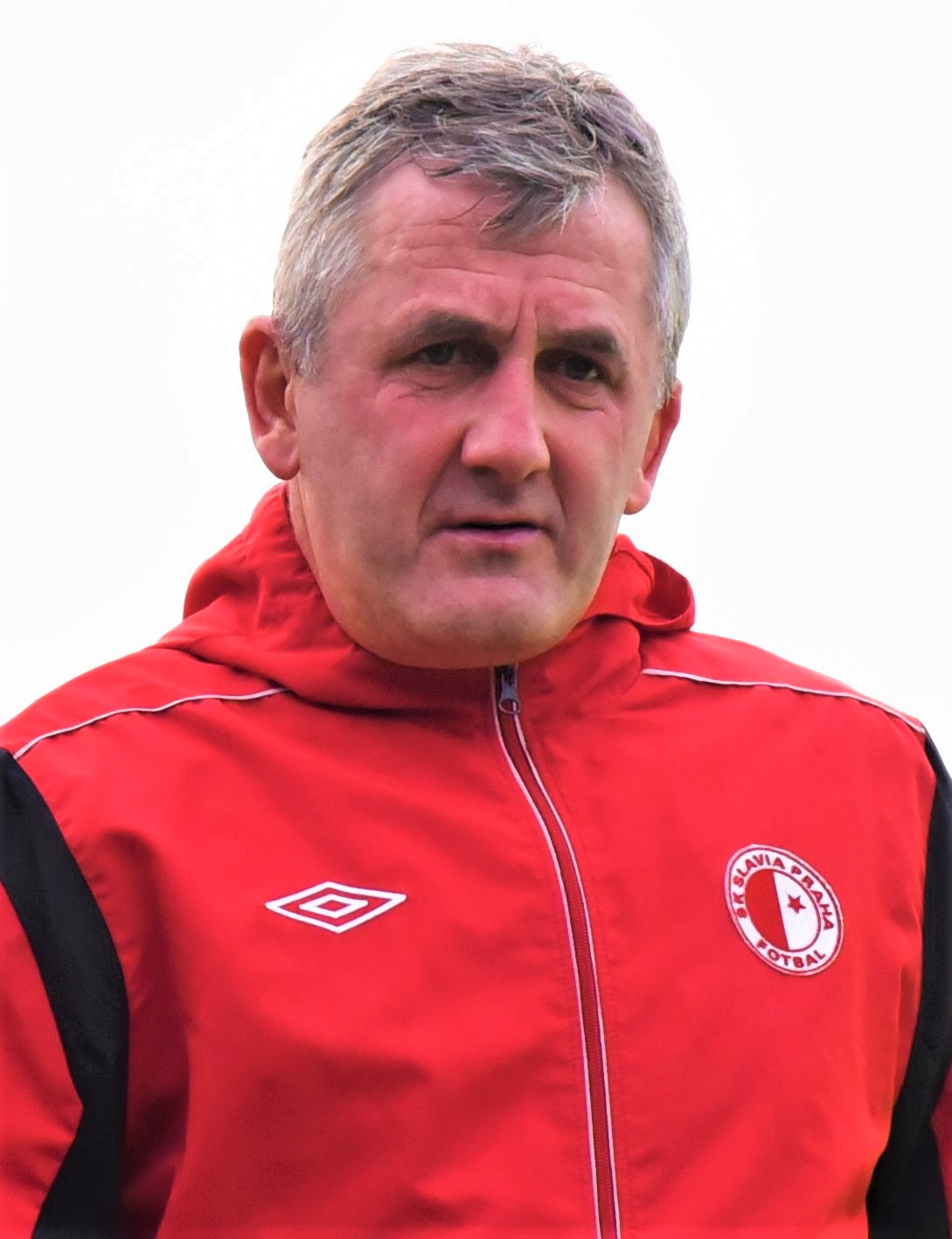 Roman Janoušek, Czech footballer